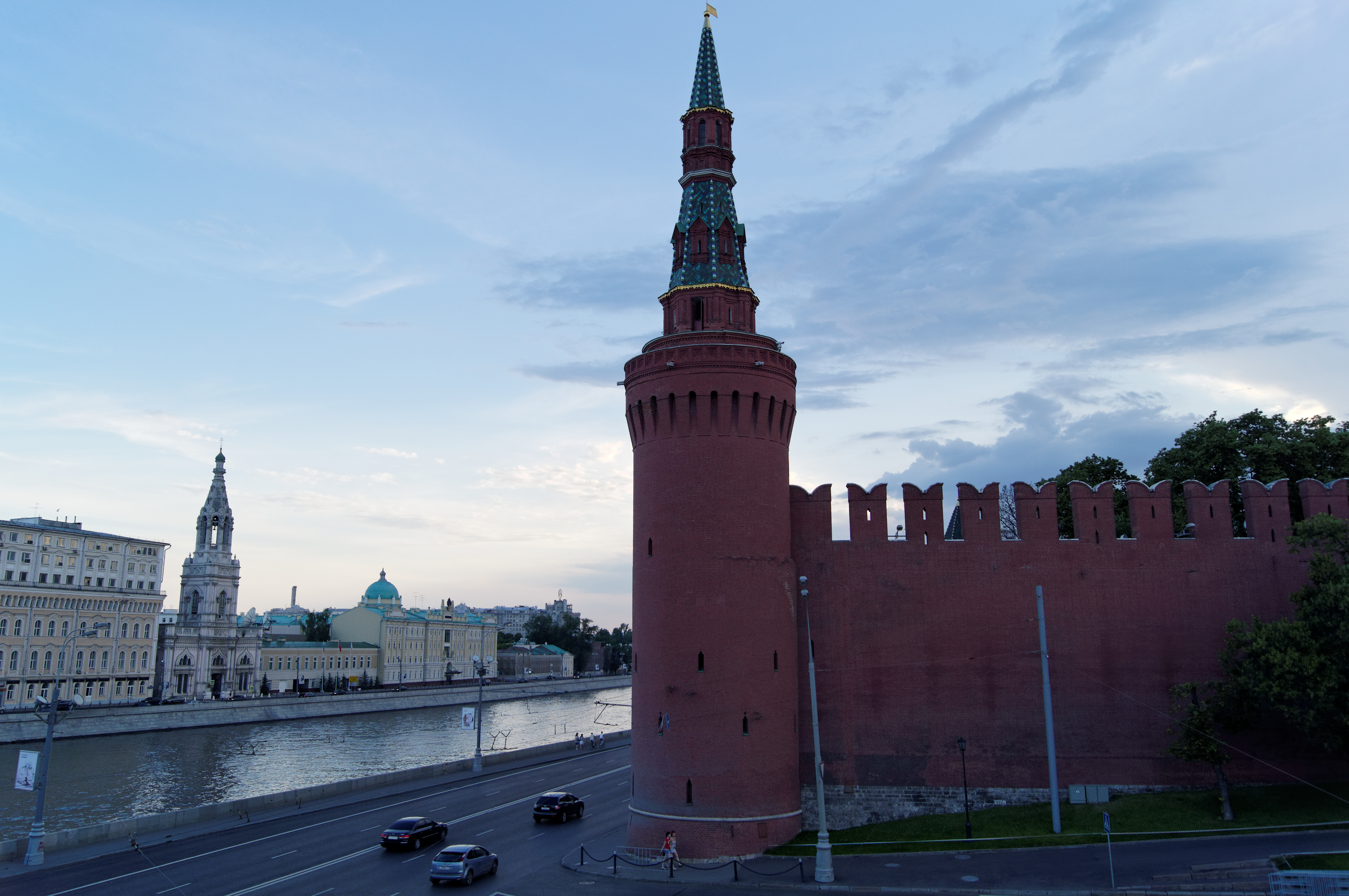 Beklemishevskaya Tower of Moscow Kremlin, Moscow, Russia.